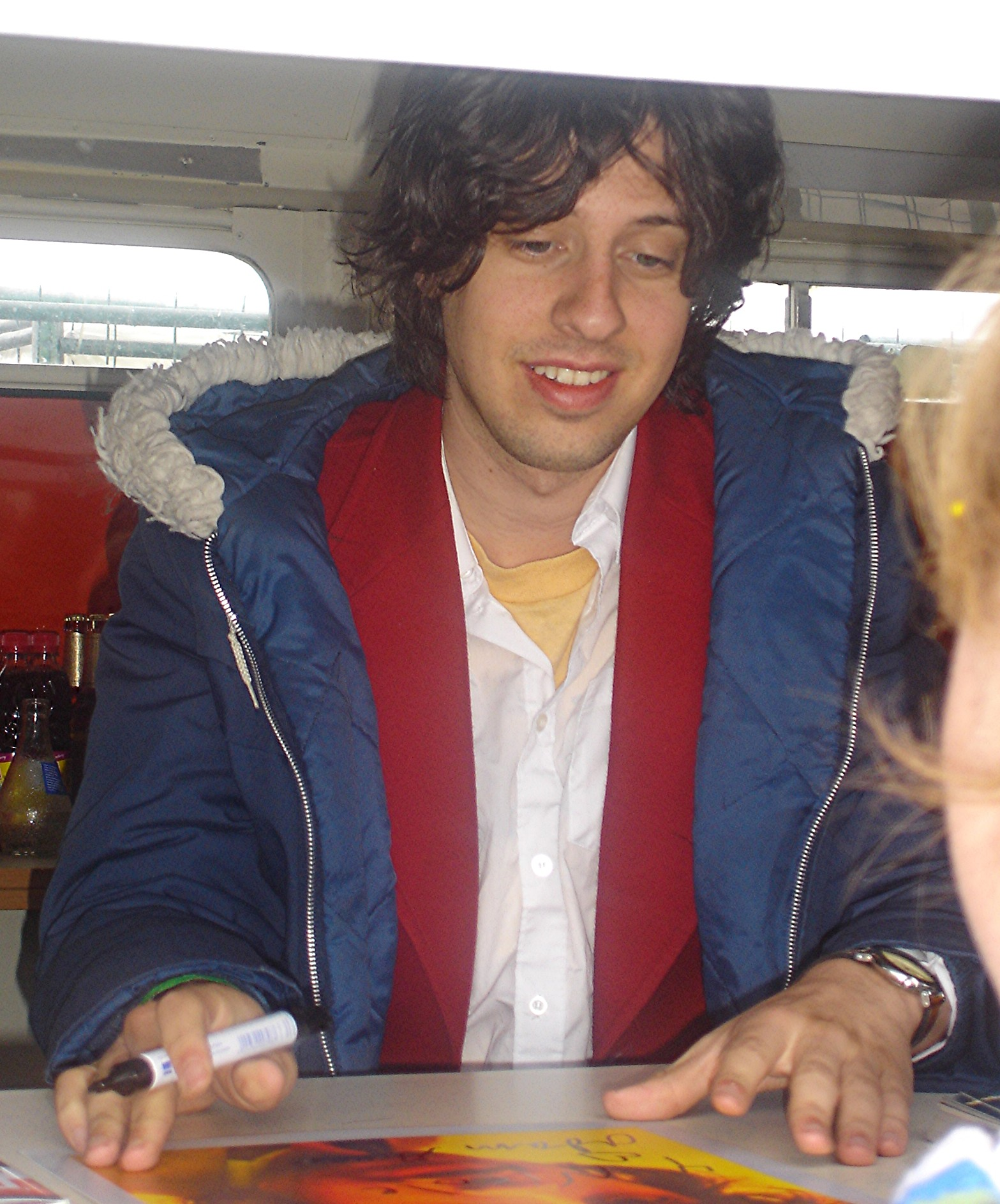 Adam Green writing autographs at Rock am Ring 2005.